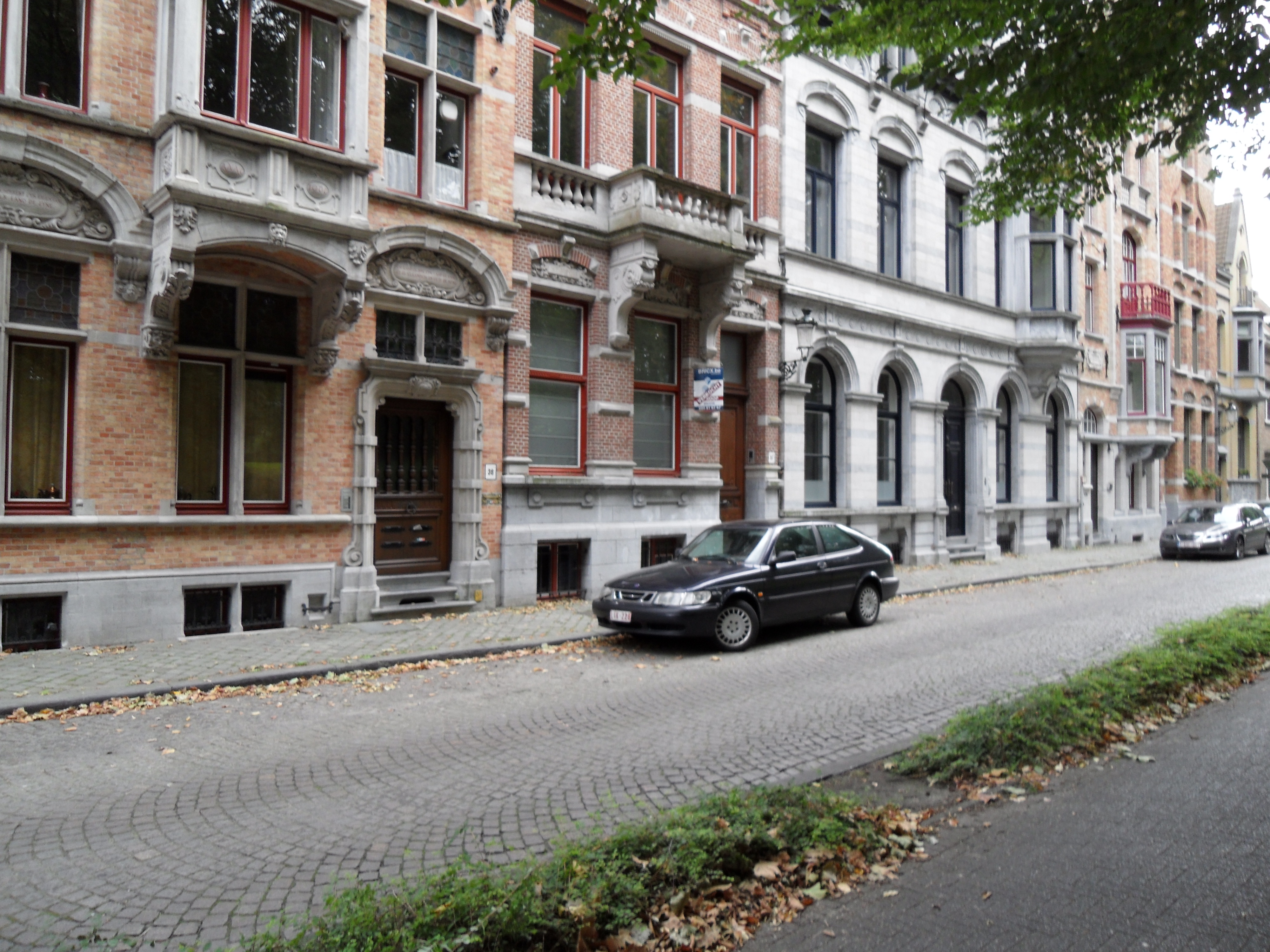 Herenhuizen aan Guido Gezellelaan